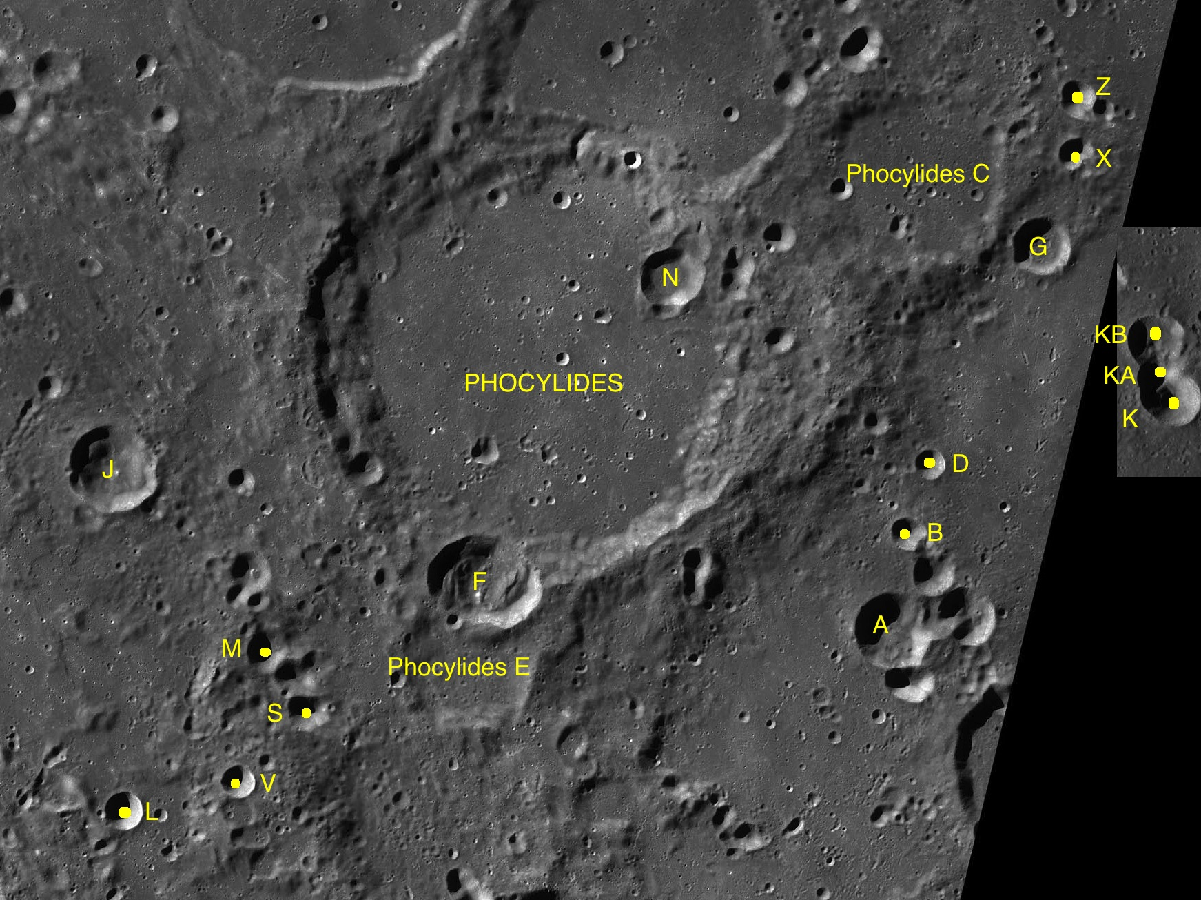 Parts of the charts LAC-124, LAC-125